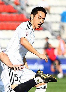 South Korean defensive midfielder Kim Nam-Il